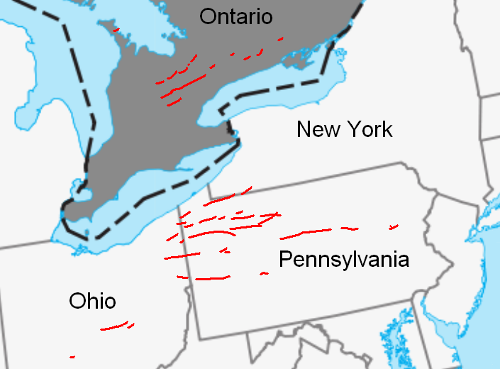 Map of tornado tracks in the May 31, 1985 tornado outbreak. Based on this map from Environment Canada, using a cropped version of this Public Domain map.